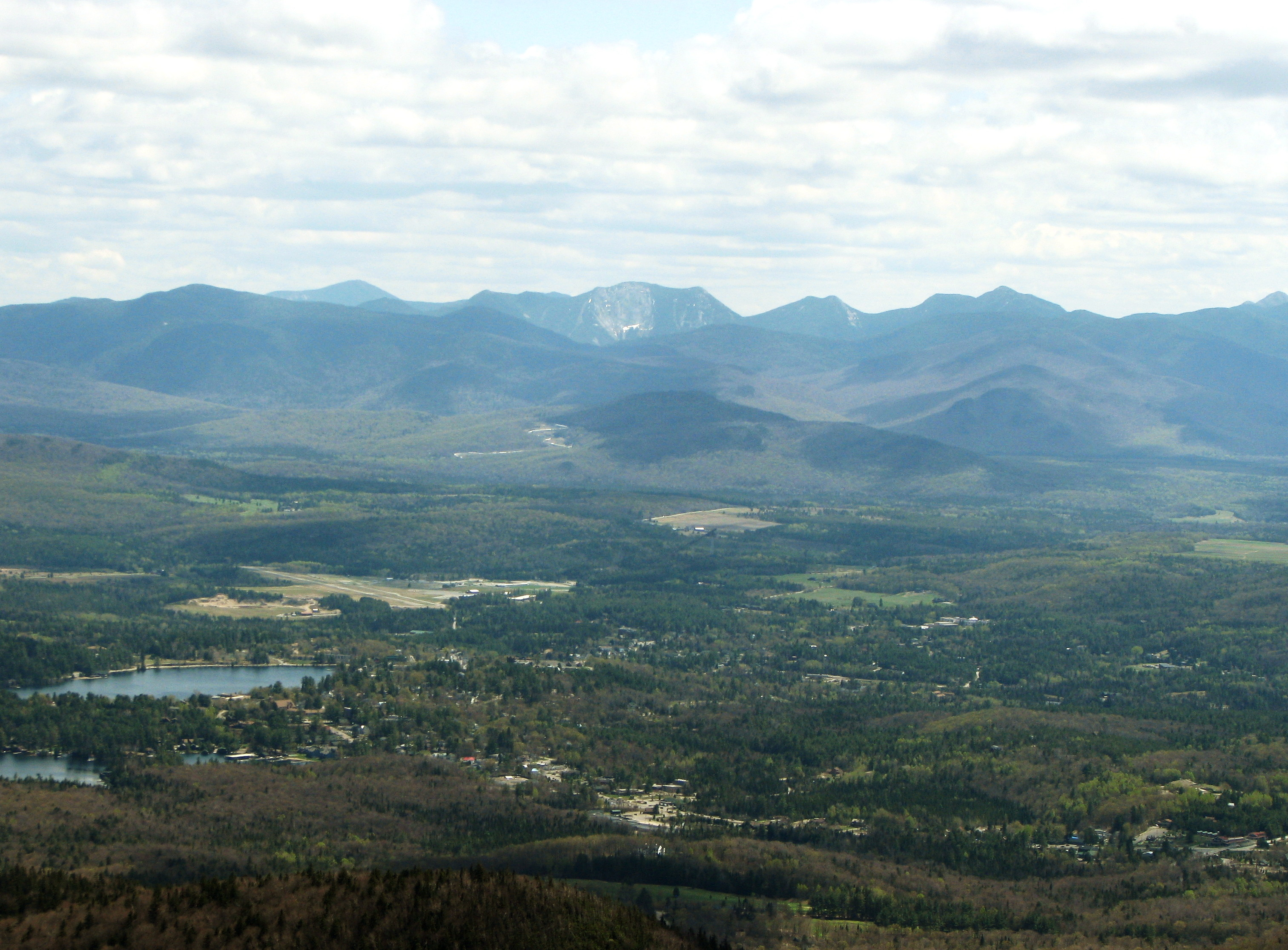 Lake Placid from McKenzie Mountain, Mirror Lake at left, Gothics in back center